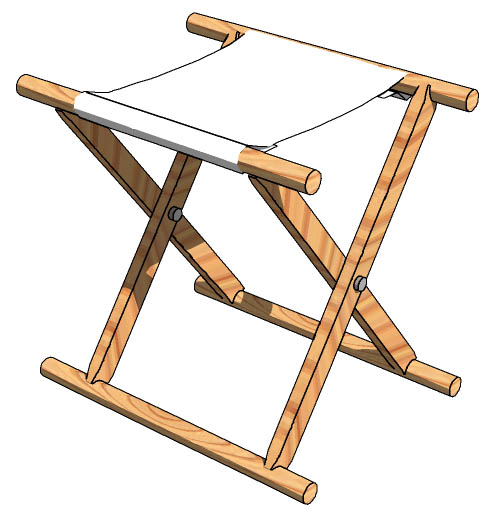 Shogi or Shôgi, a kind of Japanese traditional chair. I'm glad you to exchange the image to the photograph, if possible.